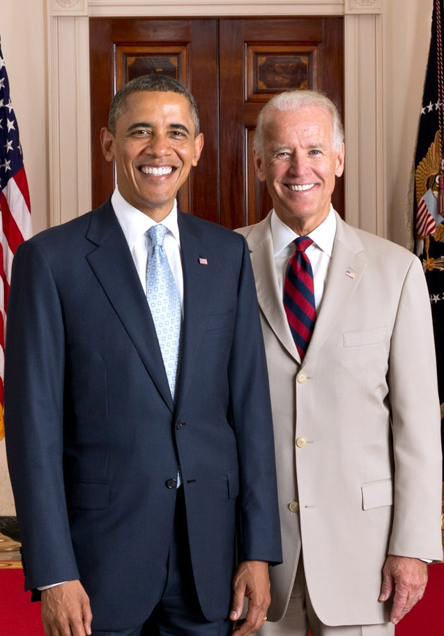 President Barack Obama and Vice President Joseph R. Biden, Jr.